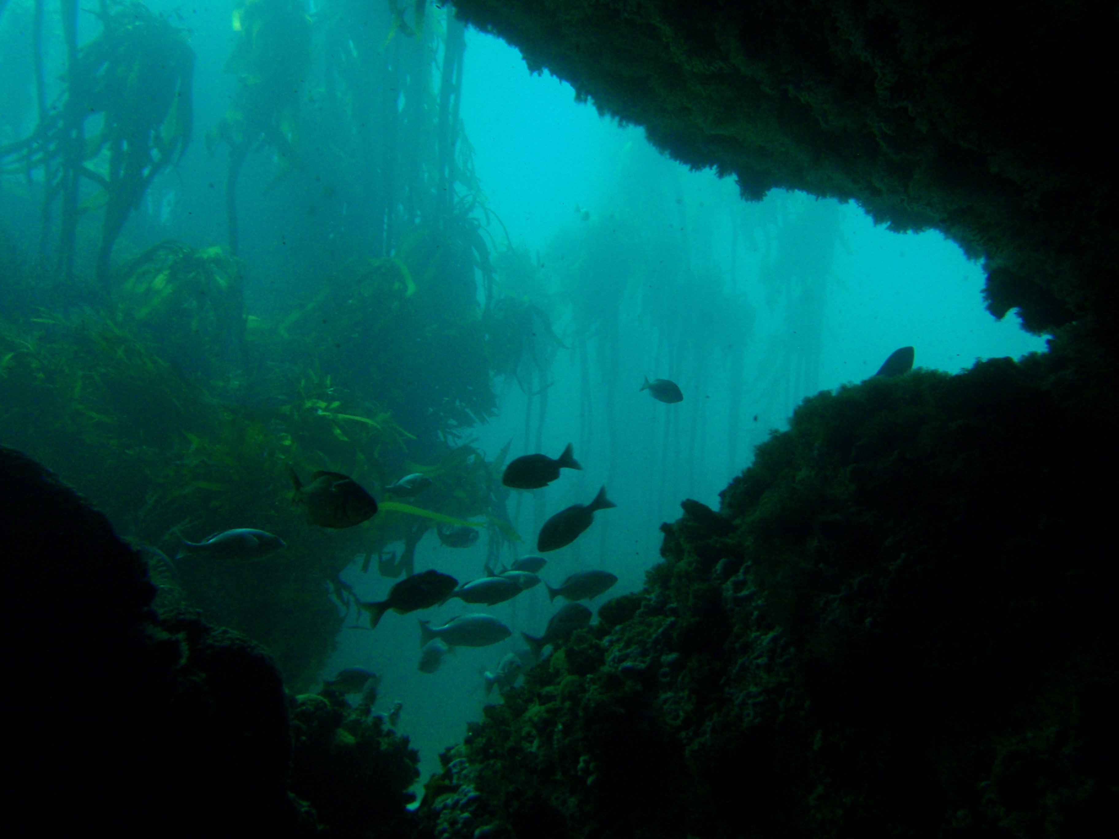 Kelp forest on high profile reef at Partridge Point, Cape Peninsula.